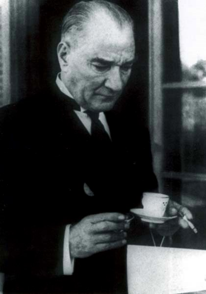 Mustafa Kemal Atatürk, during coffee and smoke break - 1936.